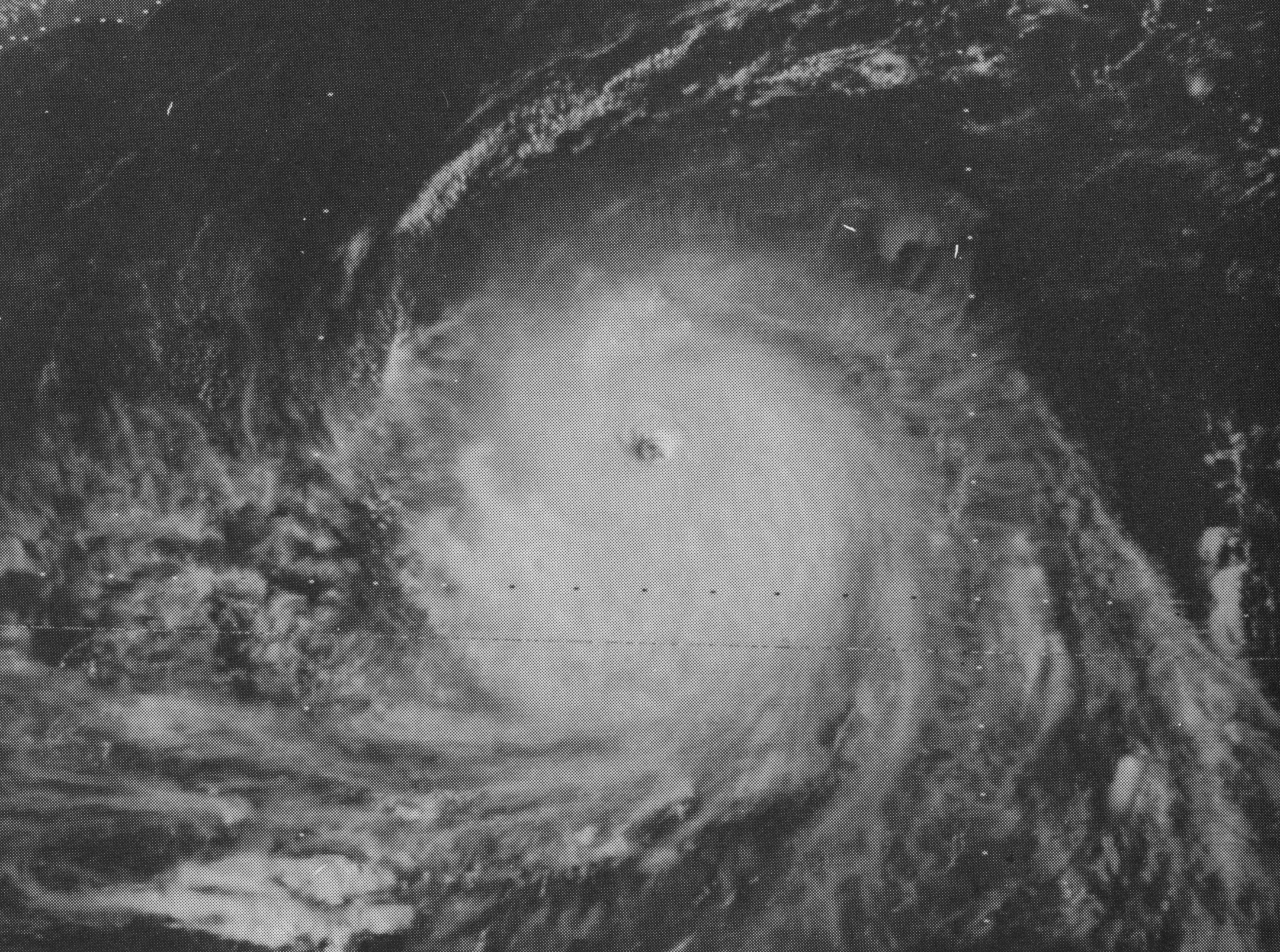 This weather satellite image of Hurricane Ella was taken on September 1, 1978 at 1931 UTC